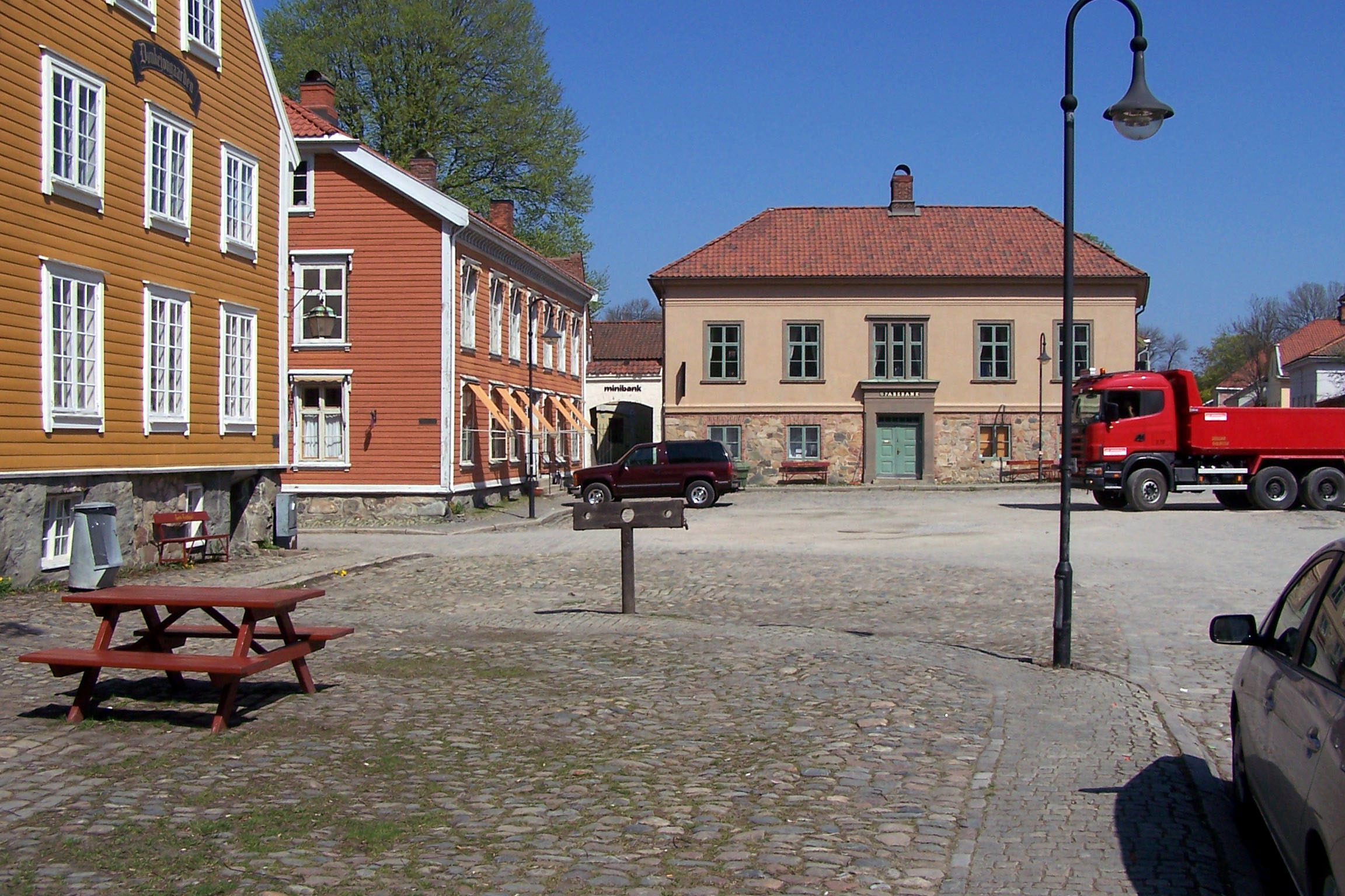 Central square in Gamlebyen (Old Town), Fredrikstad, Norway